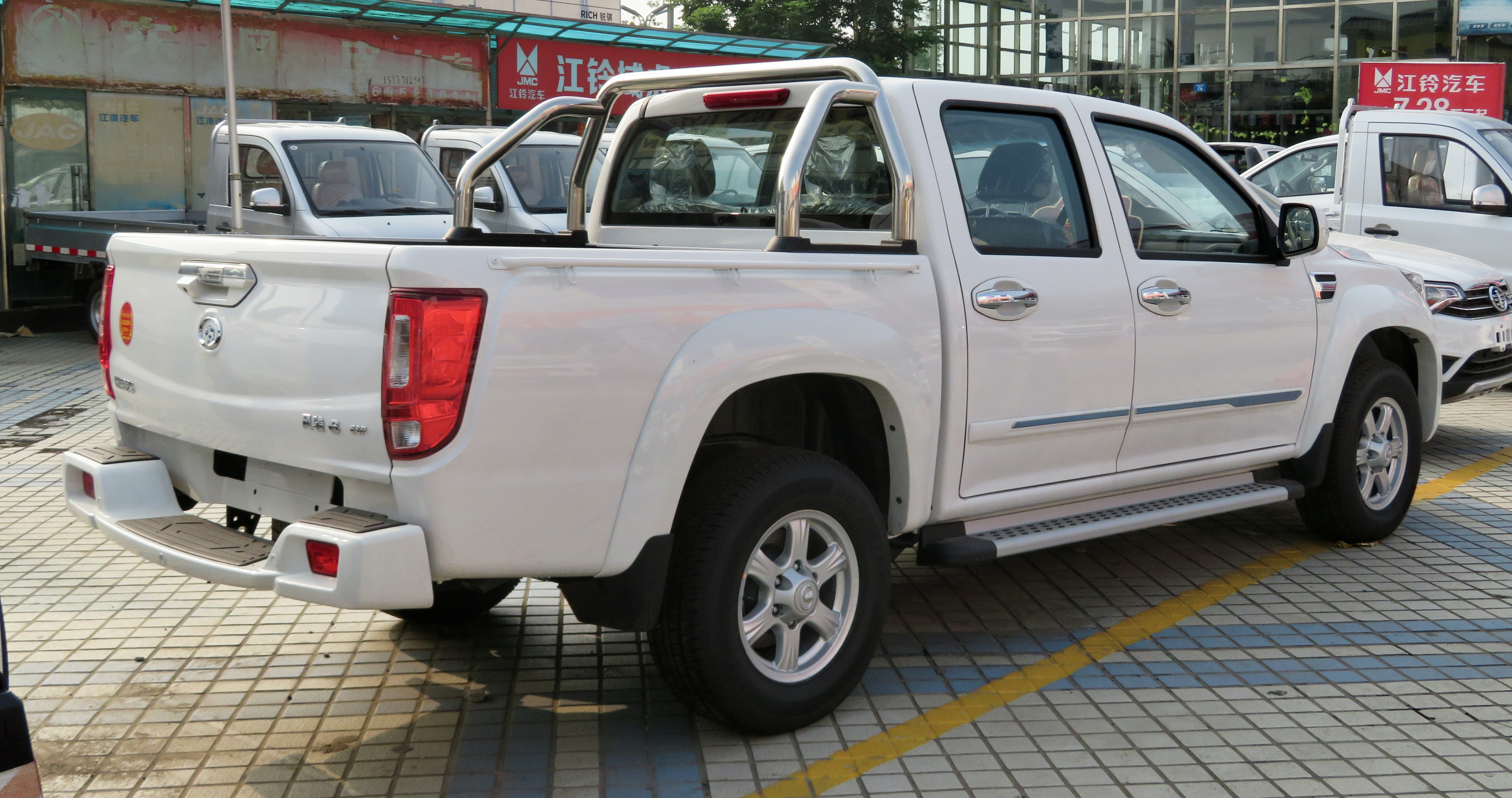 A 2018 Great-Wall Wingle 6 photographed at Guanlinzhen, in Luoyang, Henan province, China